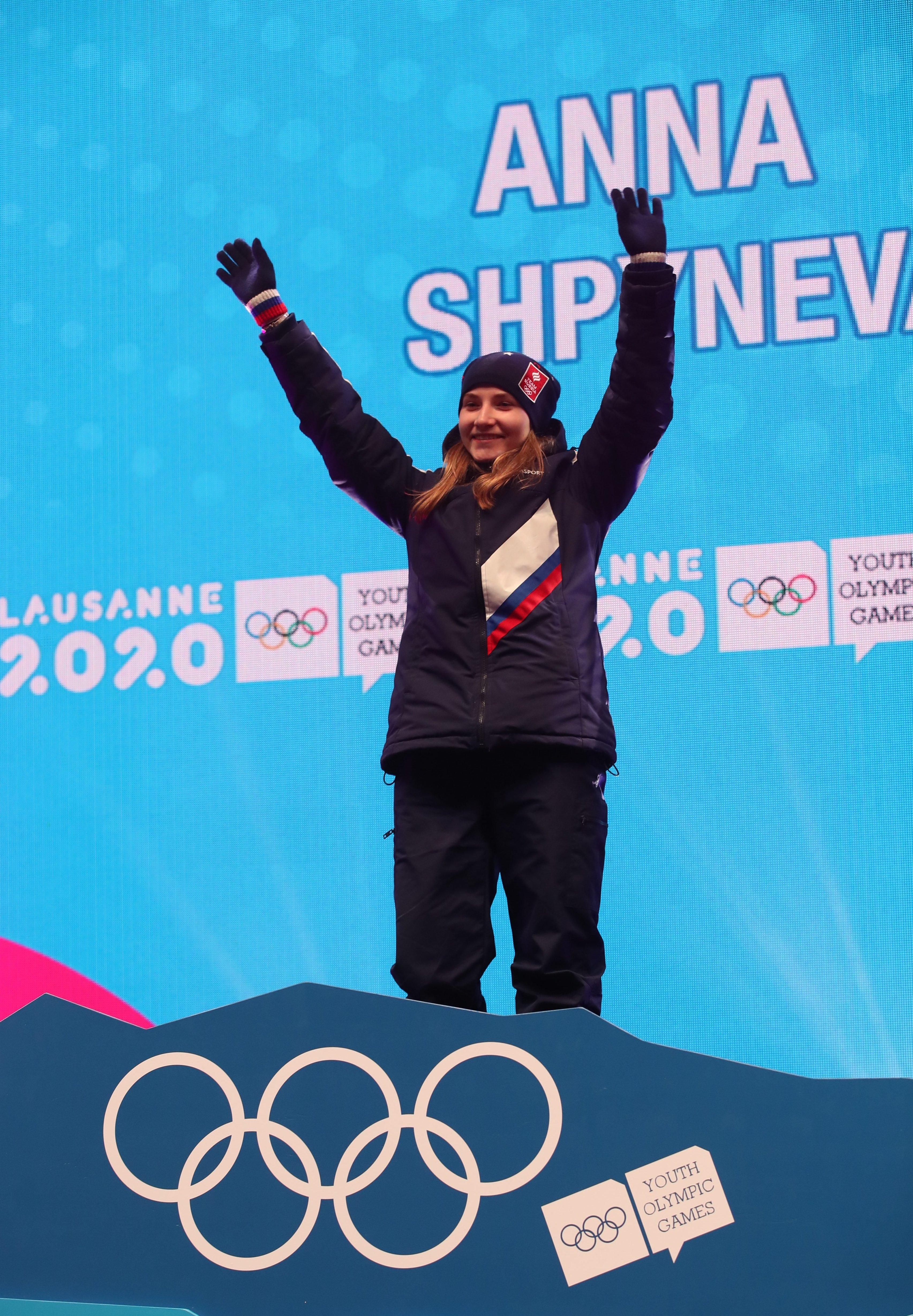 Medal Ceremony of Ski jumping – Women's Individual at the 2020 Winter Youth Olympics in Lausanne on 19 January 2020.